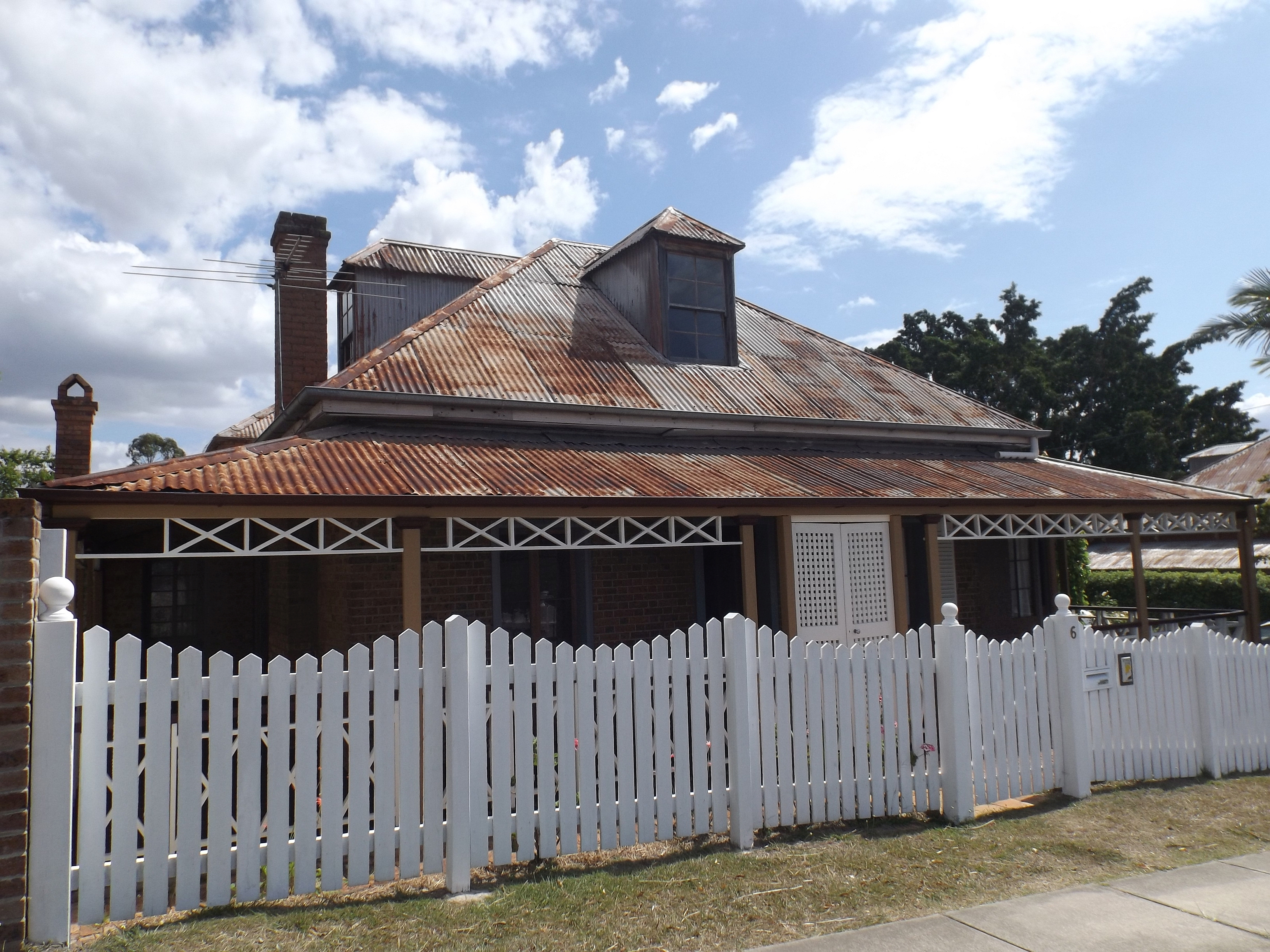 Photo of the William Berry residence at West Ipswich, Queensland, Australia.